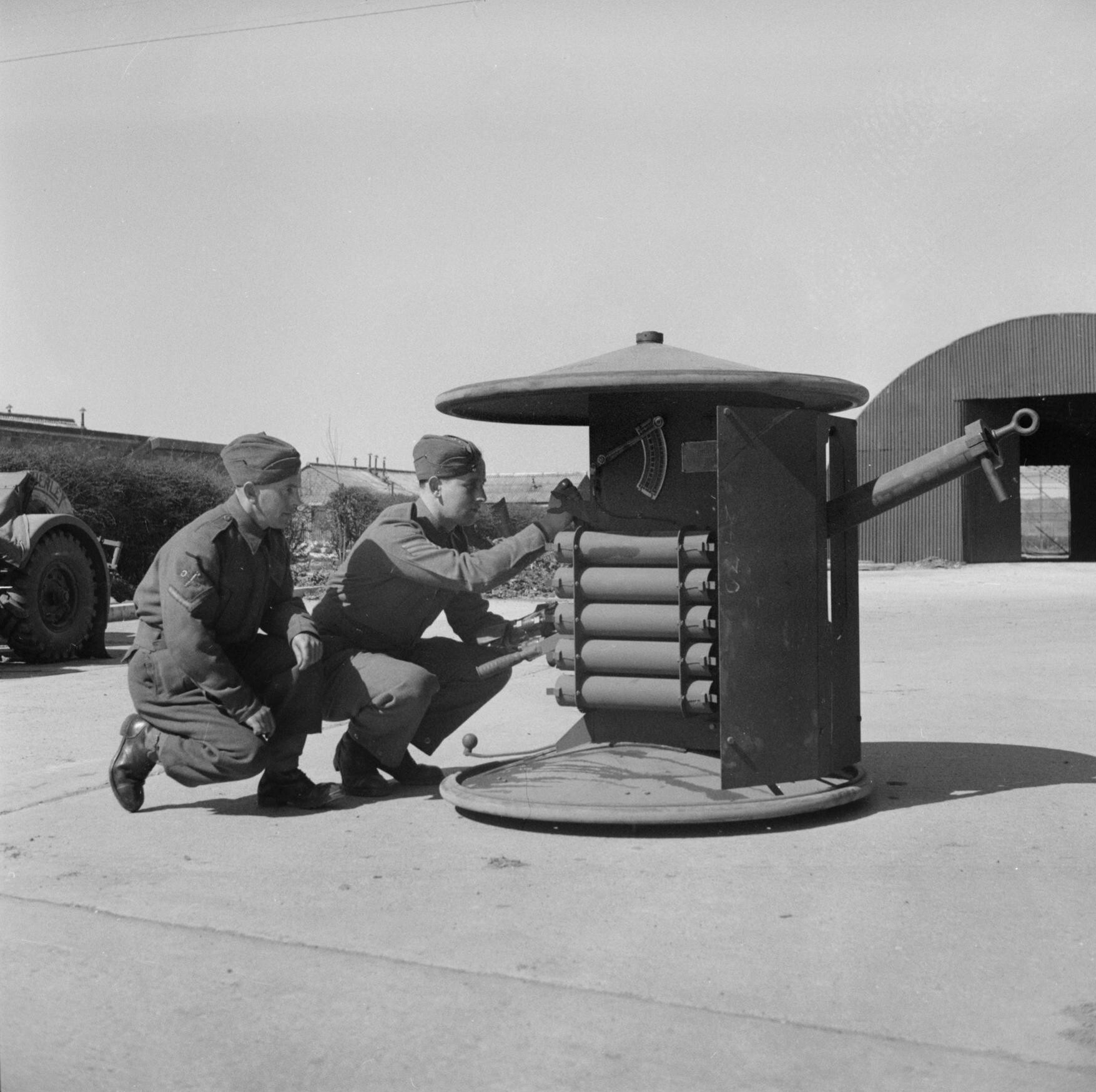 The Smith Three Inch Mobile Gun The Smith gun in the firing position.